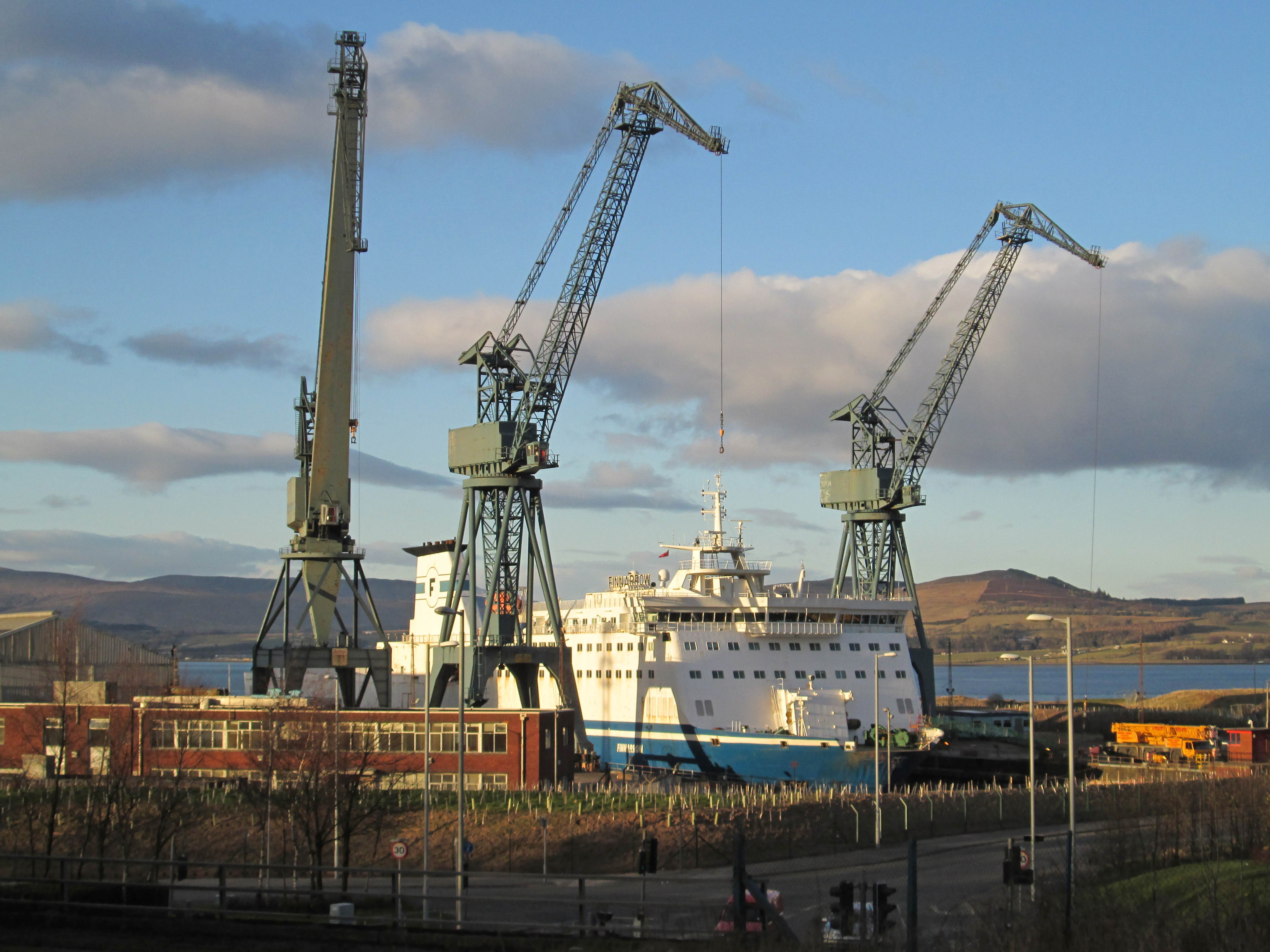 The Inchgreen Drydock in Greenock, a dry dock and repair quay owned by The Peel Group and operated by Cammell Laird shipbuilders on a project basis.Inchgreen Drydock. Cammell Laird (10 October 2015). Retrieved on 11 May 2017. In March 2013 it was used for urgent repair work to the ro-ro Stena Line ferry Finnarrow, the first major repair job in the dry dock for almost ten years.Irish Sea: Clyde repairs for Finnarrow. Ships Monthly (27 March 2013). Retrieved on 11 May 2017. View from Bogston railway station.